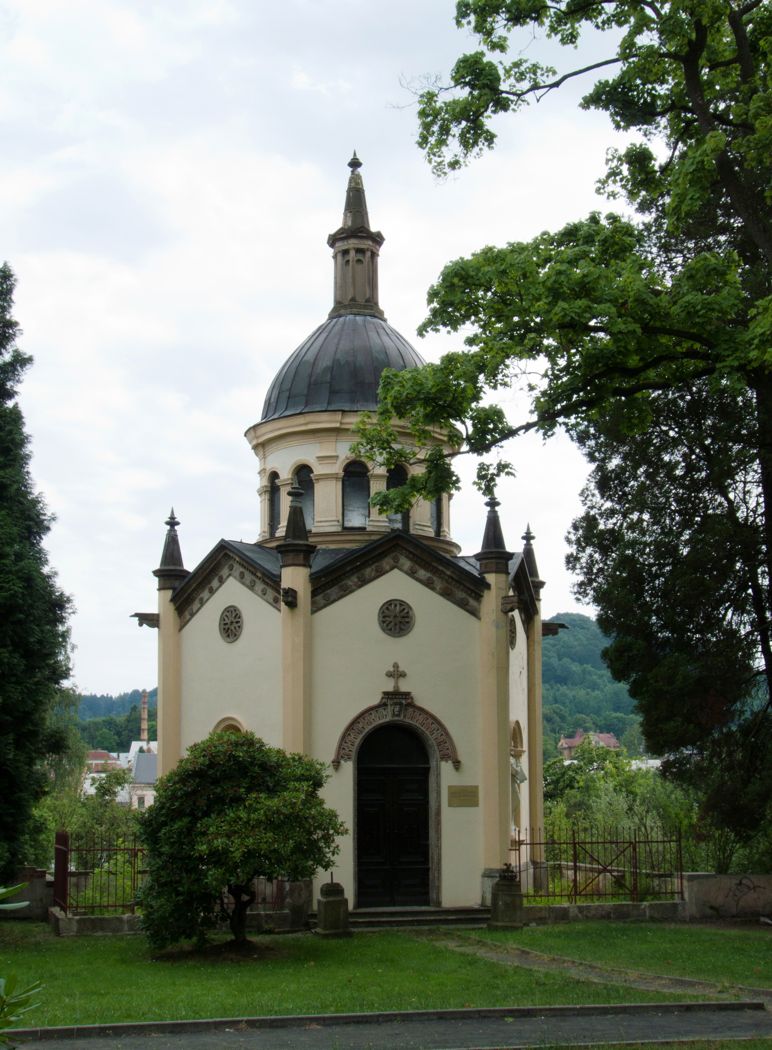 Preidel's tomb at the Nativity of Mary Chapel in the town of Česká Kamenice, (Czech Republic)